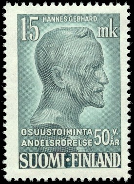 Postage stamp depicting Finnish professor in economics, Hannes Gebhard